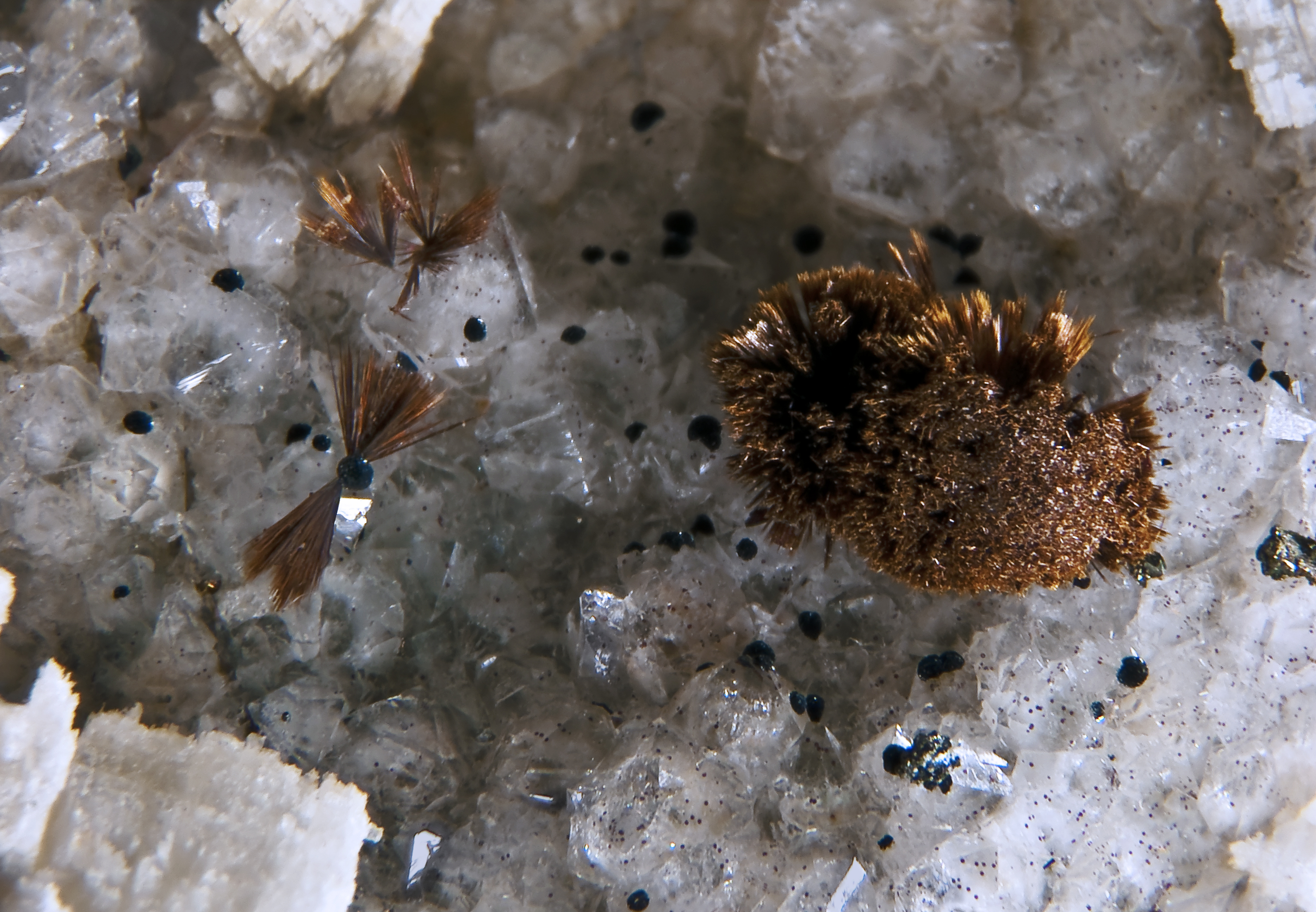 Goethite on quartz Locality : Wawa, Chabanel Township, Algoma District, Ontario Canada Size : View 1.8cm